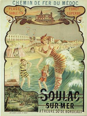 Poster of the former Compagnie du chemin de fer du Médoc (France); Soulac-sur-Mer.